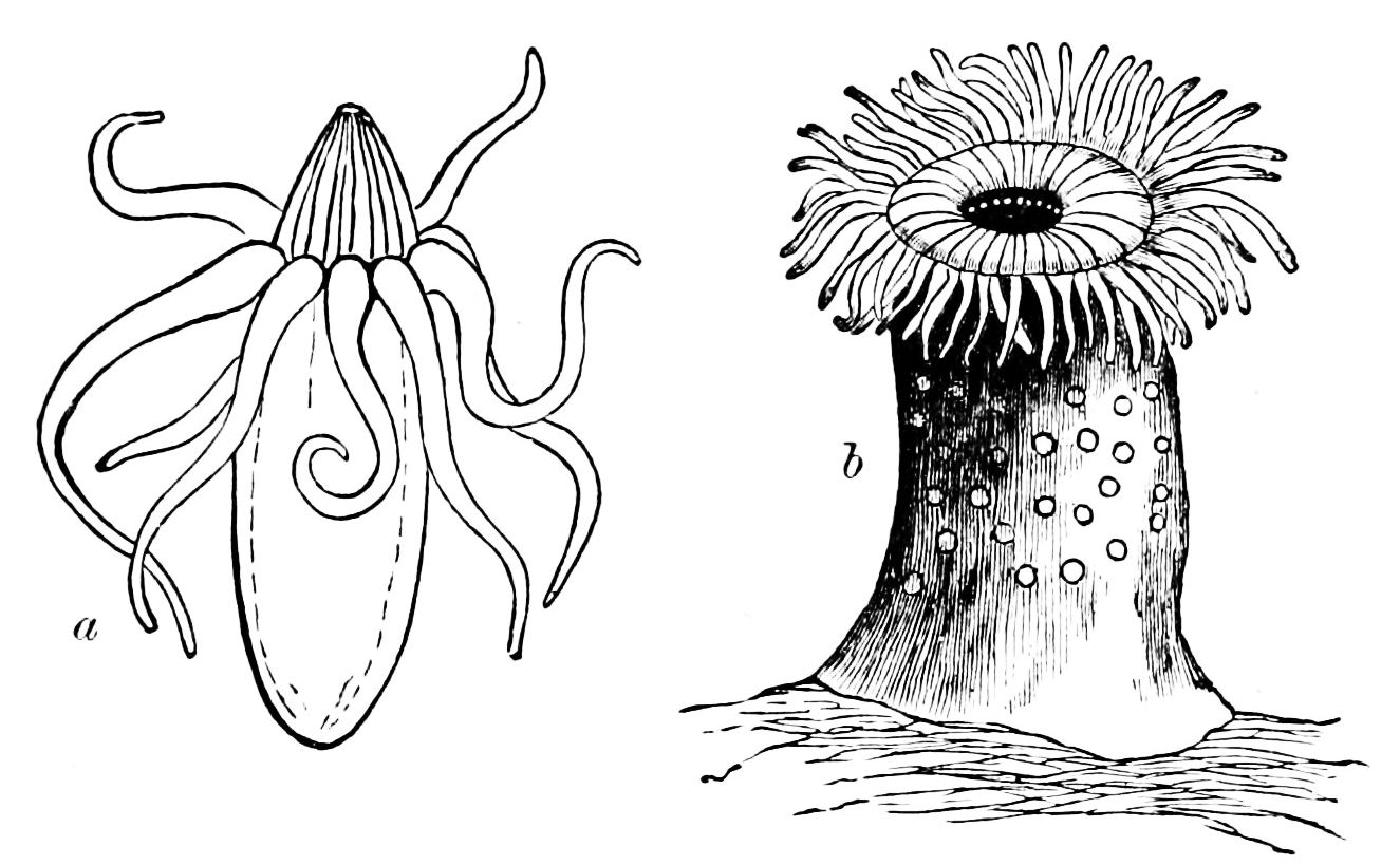 Arachnactis albida